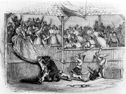 Bearbaiting english engrave